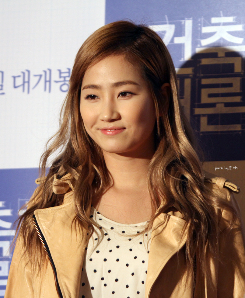 Park Ye-Eun at Architecture 101 VIP preview.